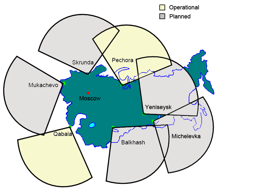 A map showing the rough ranges of the Daryal series of Soviet anti-ballistic missile radars. It shows the two that became operational and the five that did not.